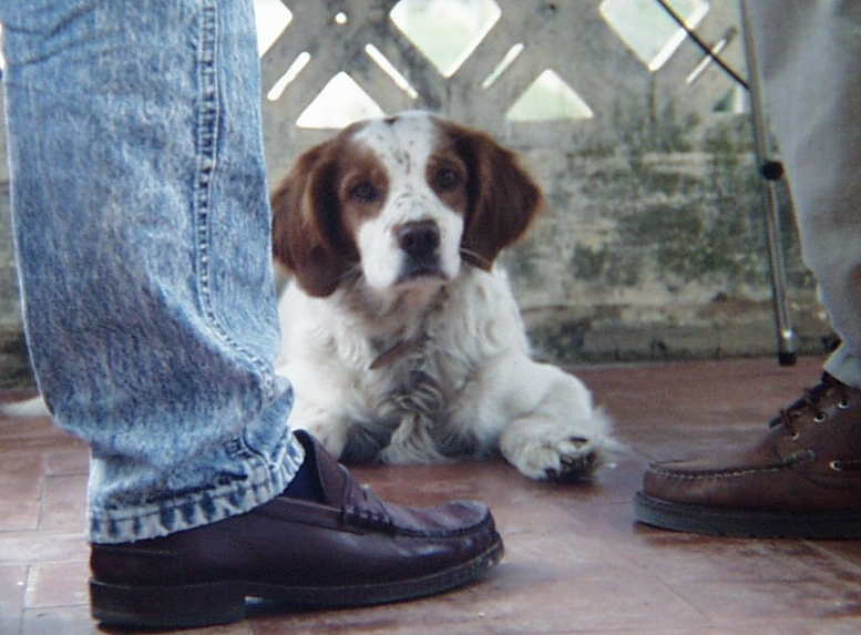 Epagneul breton (Talky) good retriever and man's best friend.